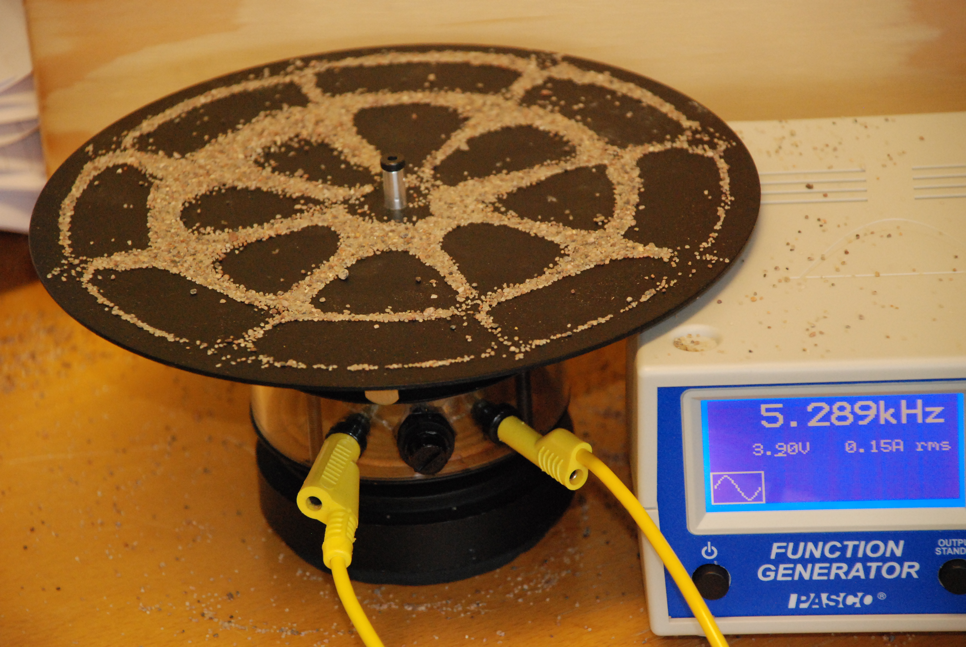 Round Chladni plate with 3 circular and 4 linear nodes; the iron disc is resonating at 5.289 kHz.